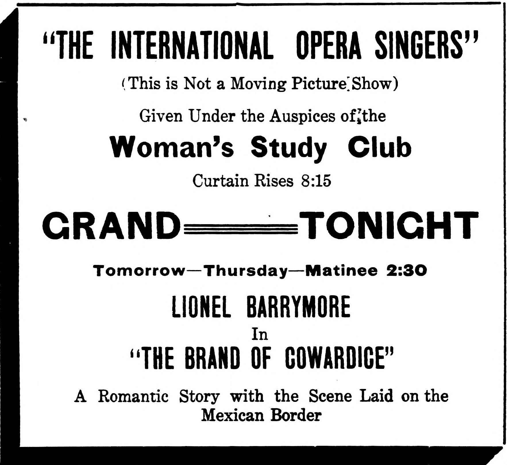 The Brand of Cowardice is a 1916 silent film starring Lionel Barrymore and released thru Metro Pictures. It is a lost film. This is a newspaper advertisement for the film.